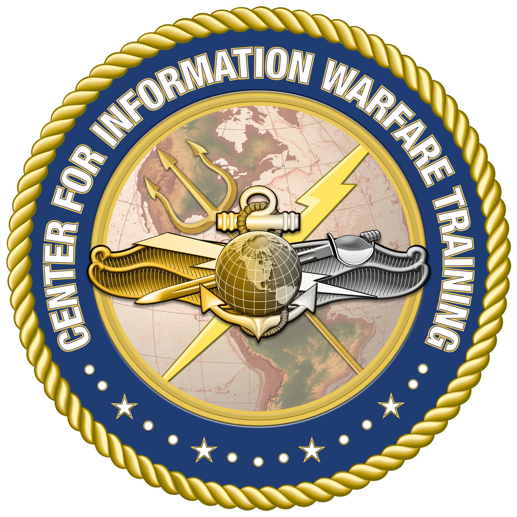 Logo for Center for Information Warfare Training. (U.S. Navy graphic by Michele Diamond)